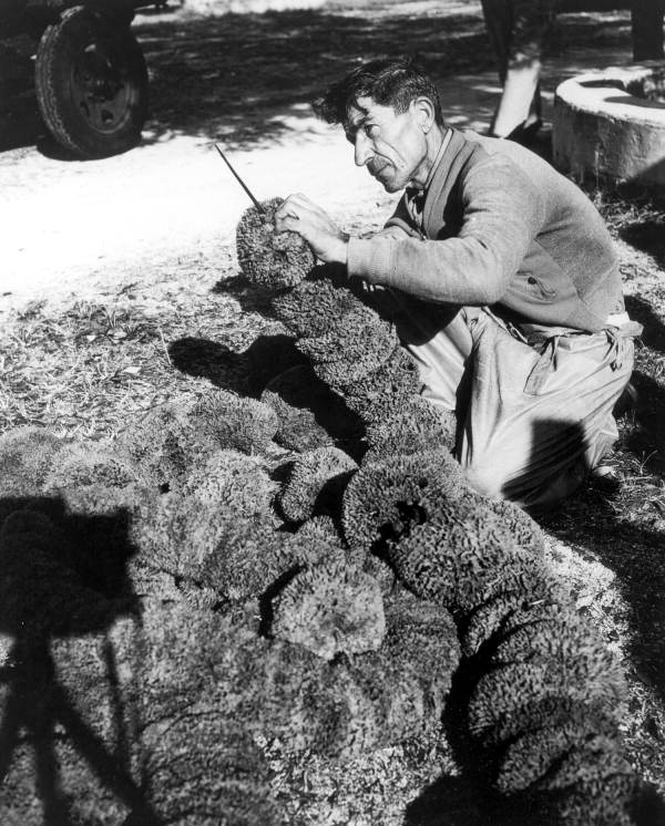 Sponge fisherman threading sponges - Tarpon Springs, Florida